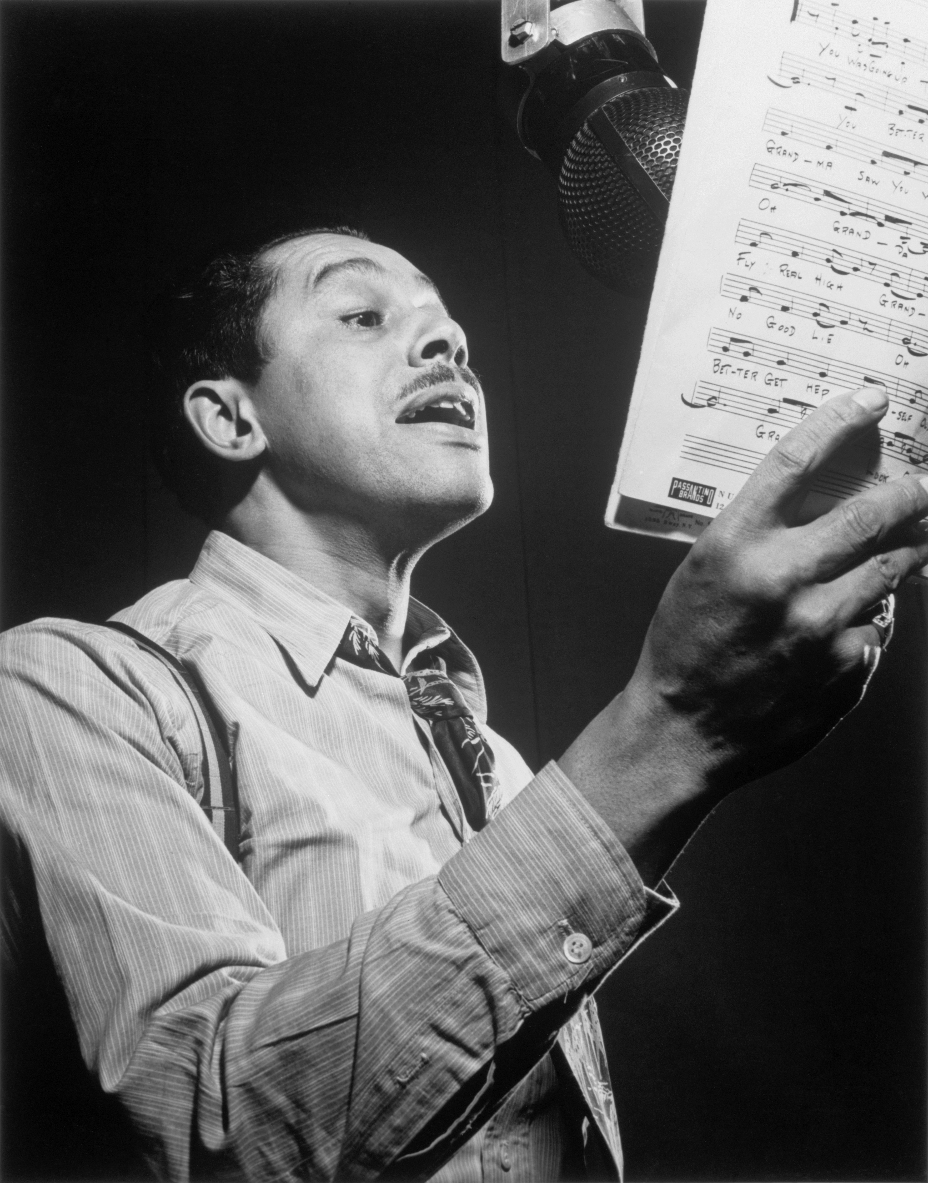 Portrait of Cab Calloway, Columbia studio, New York, N.Y., ca. Mar. 1947